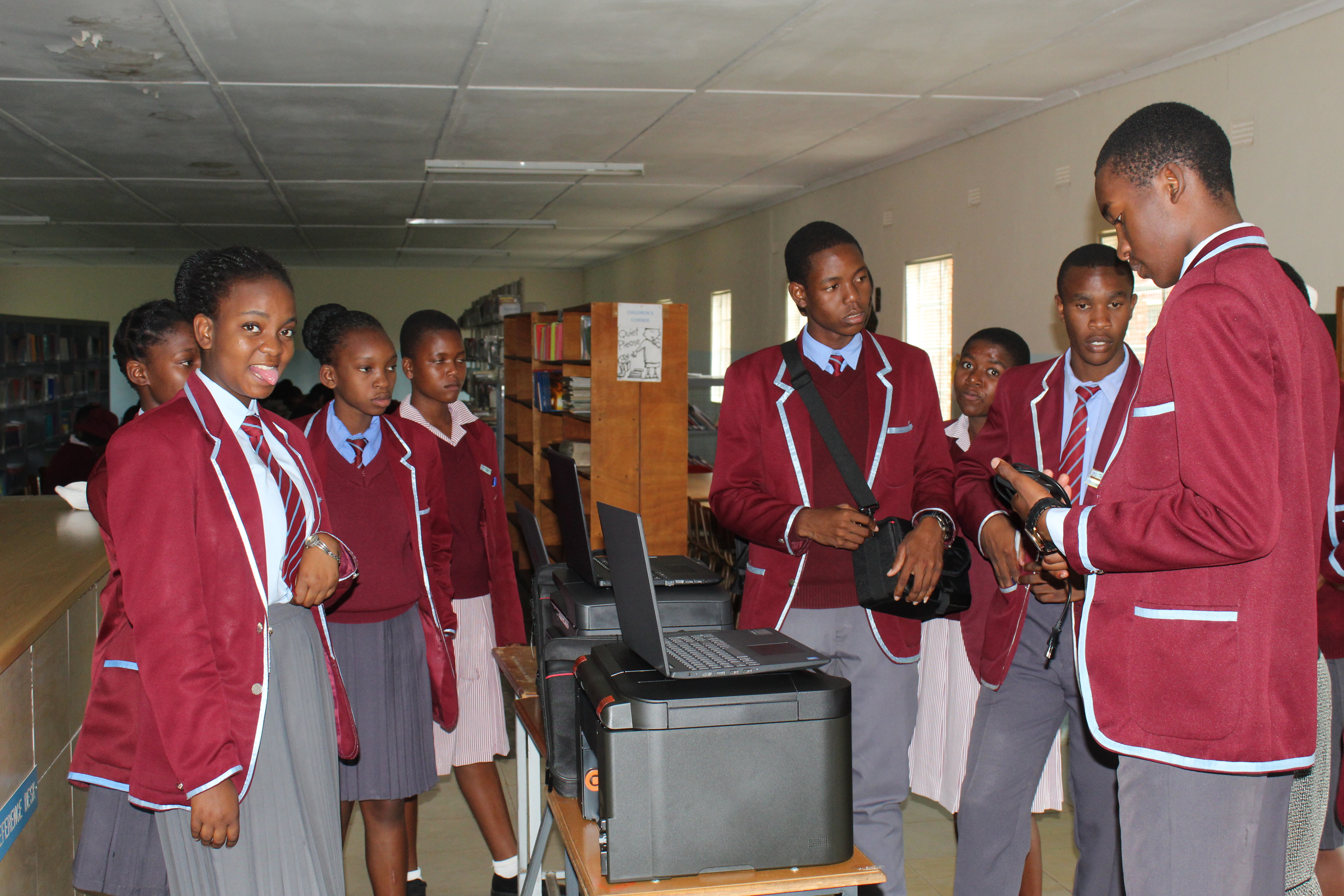 Zimbabwe is one of the most literate country in Africa , with this picture, i try to portray that This is an image with the theme "Africa on the Move or Transport" from: Zimbabwe